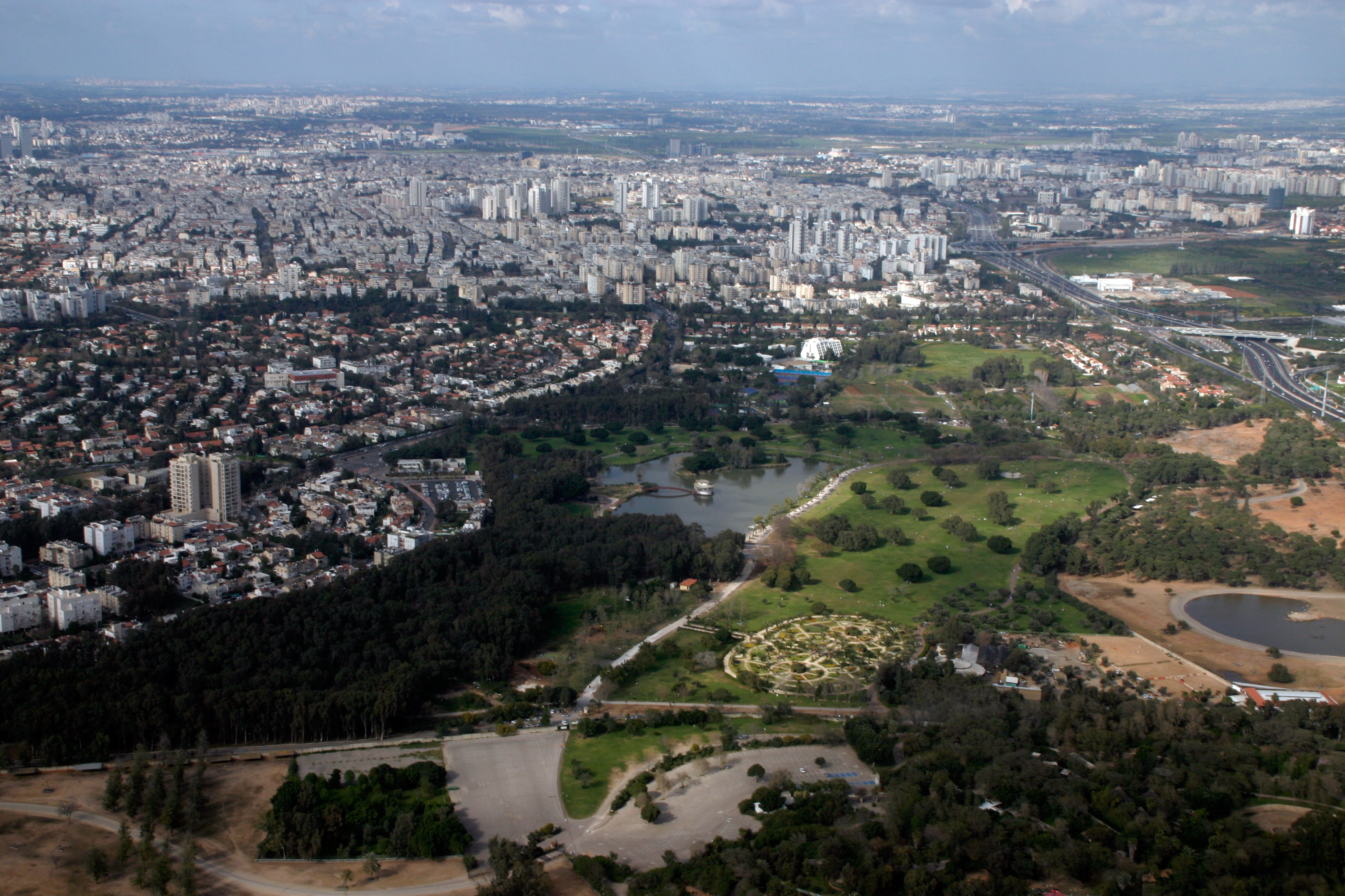 Ramat Gan Above Tel-Aviv (and Ramat-Gan)